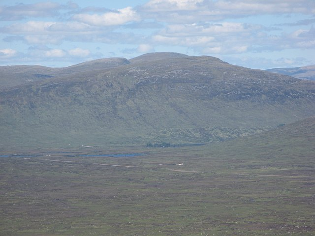 Beinn na Lap Southern slopes of Beinn na Lap above Loch Ossian, seen across Rannoch Moor from Stob na Cruaiche.